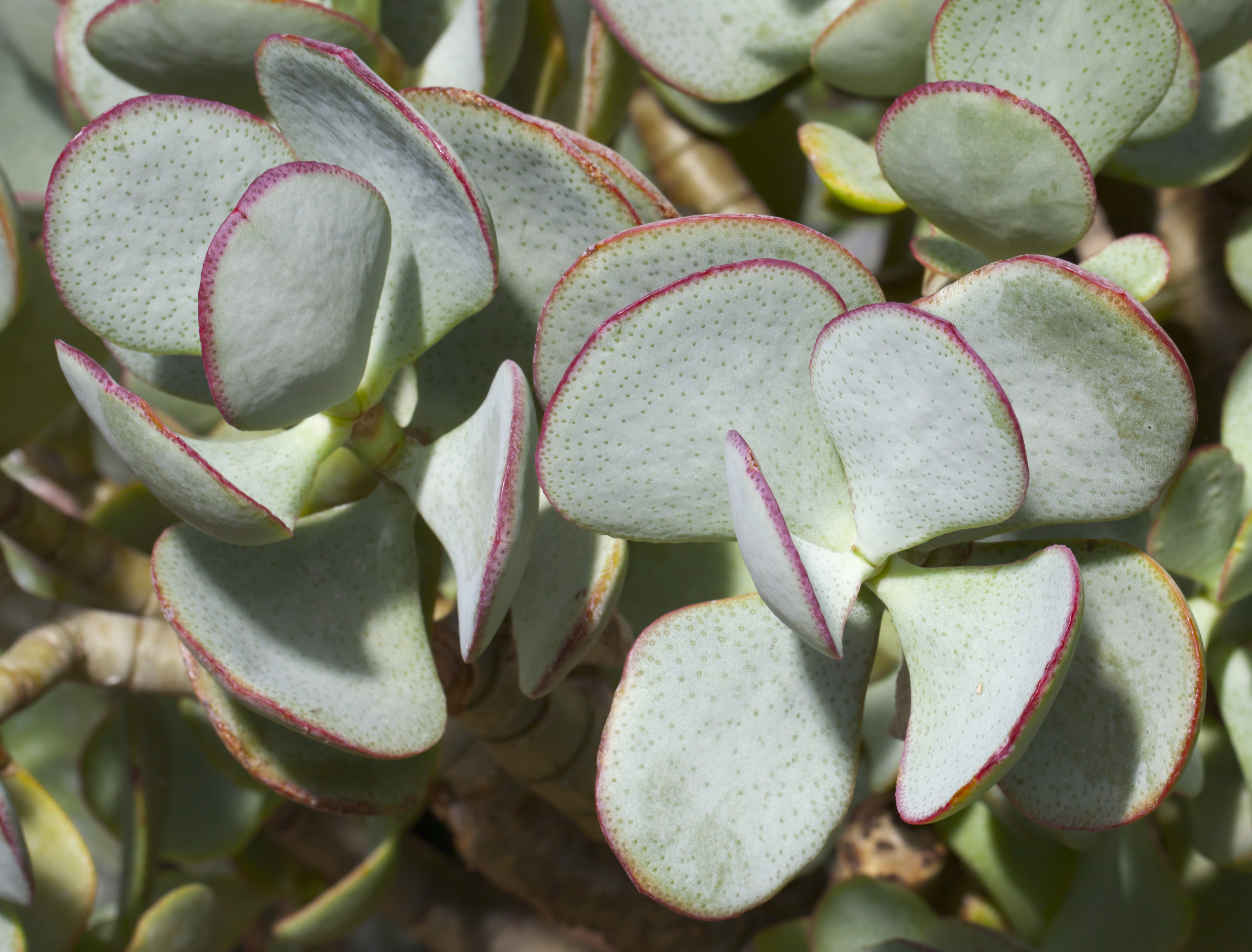 Crassula arborescens, Botanic Garden, Munich, Germany